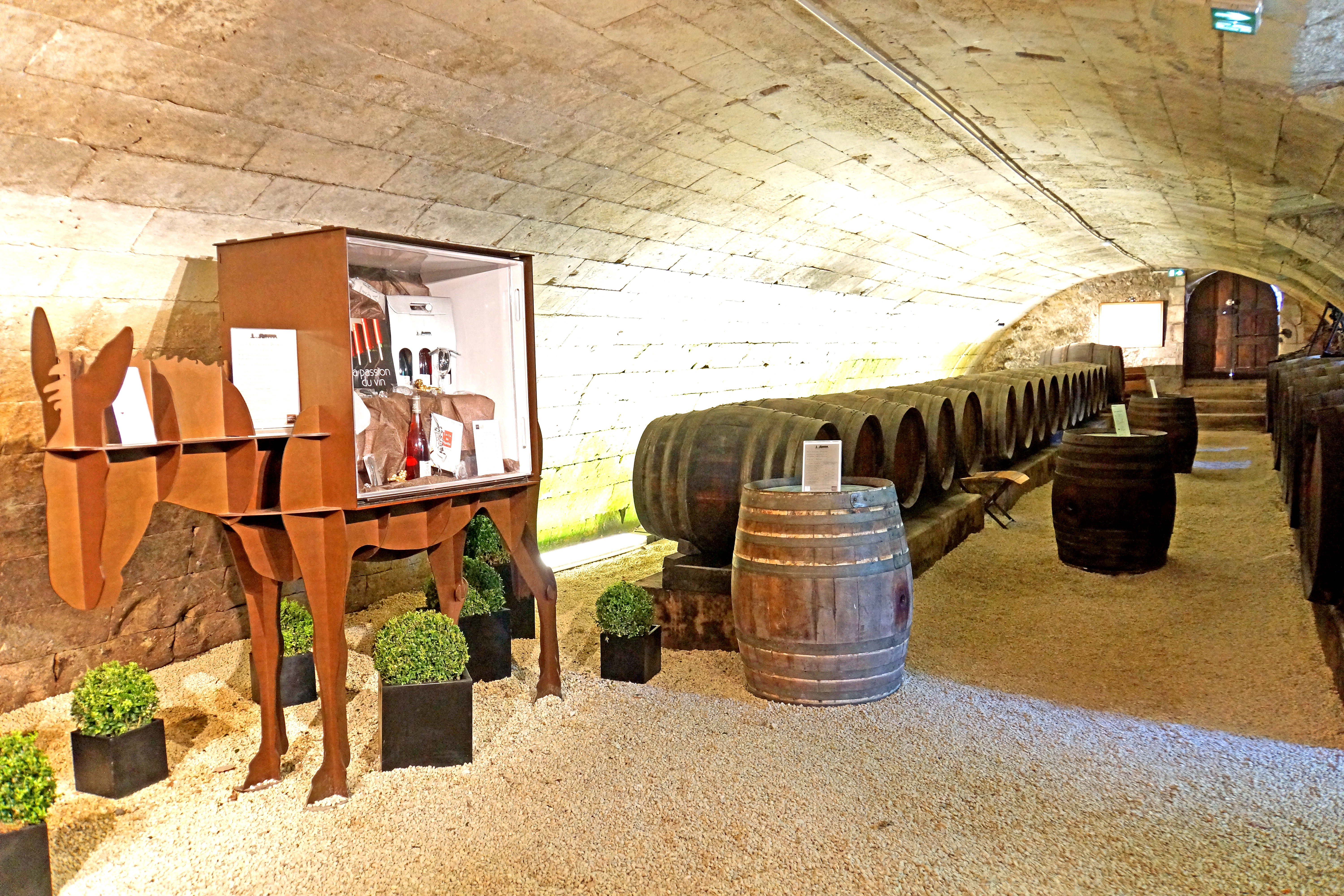 PLEASE, NO invitations or self promotions, THEY WILL BE DELETED. My photos are FREE to use, just give me credit and it would be nice if you let me know, thanks. PLEASE, NO invitations or self promotions, THEY WILL BE DELETED. My photos are FREE to use, just give me credit and it would be nice if you let me know, thanks. The Wine Cellar.